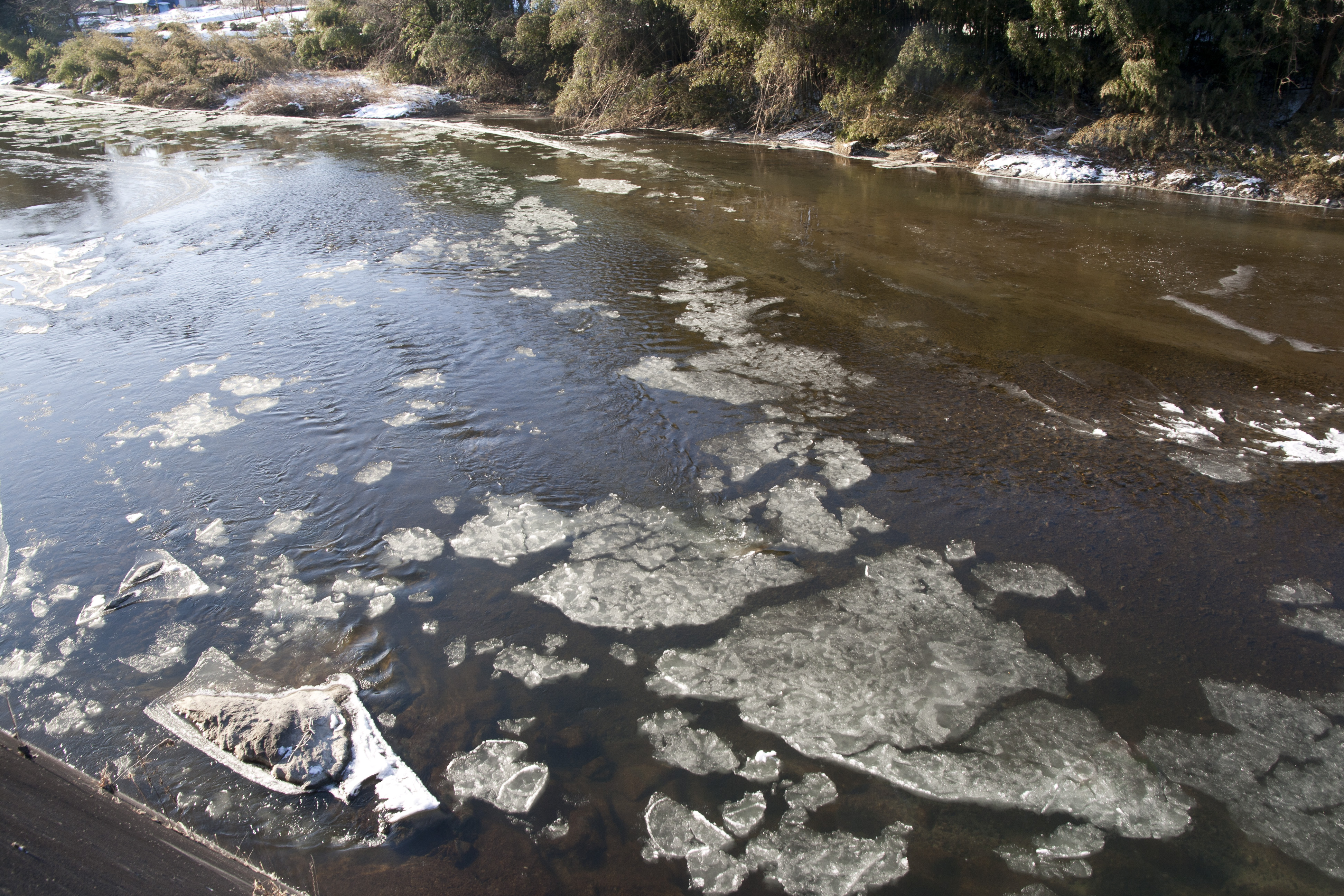 Frazil ice of Kuji river, Ibaraki Prefecture, Japan